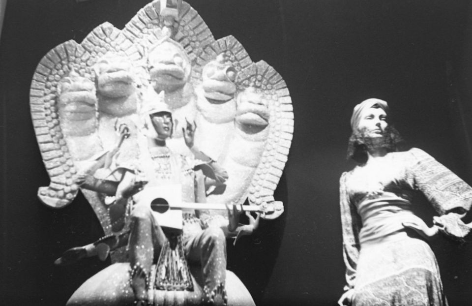 We see a display of Ogilvy showcase located at 1307 Sainte-Catherine Street West, Montreal. It outlines a model wearing an oriental turban standing next to a statue Tibetan musician playing a traditional instrument sitting on a throne.